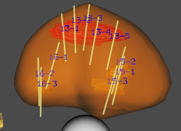 Targeted MRI-US fusion prostate biopsy at UCLA